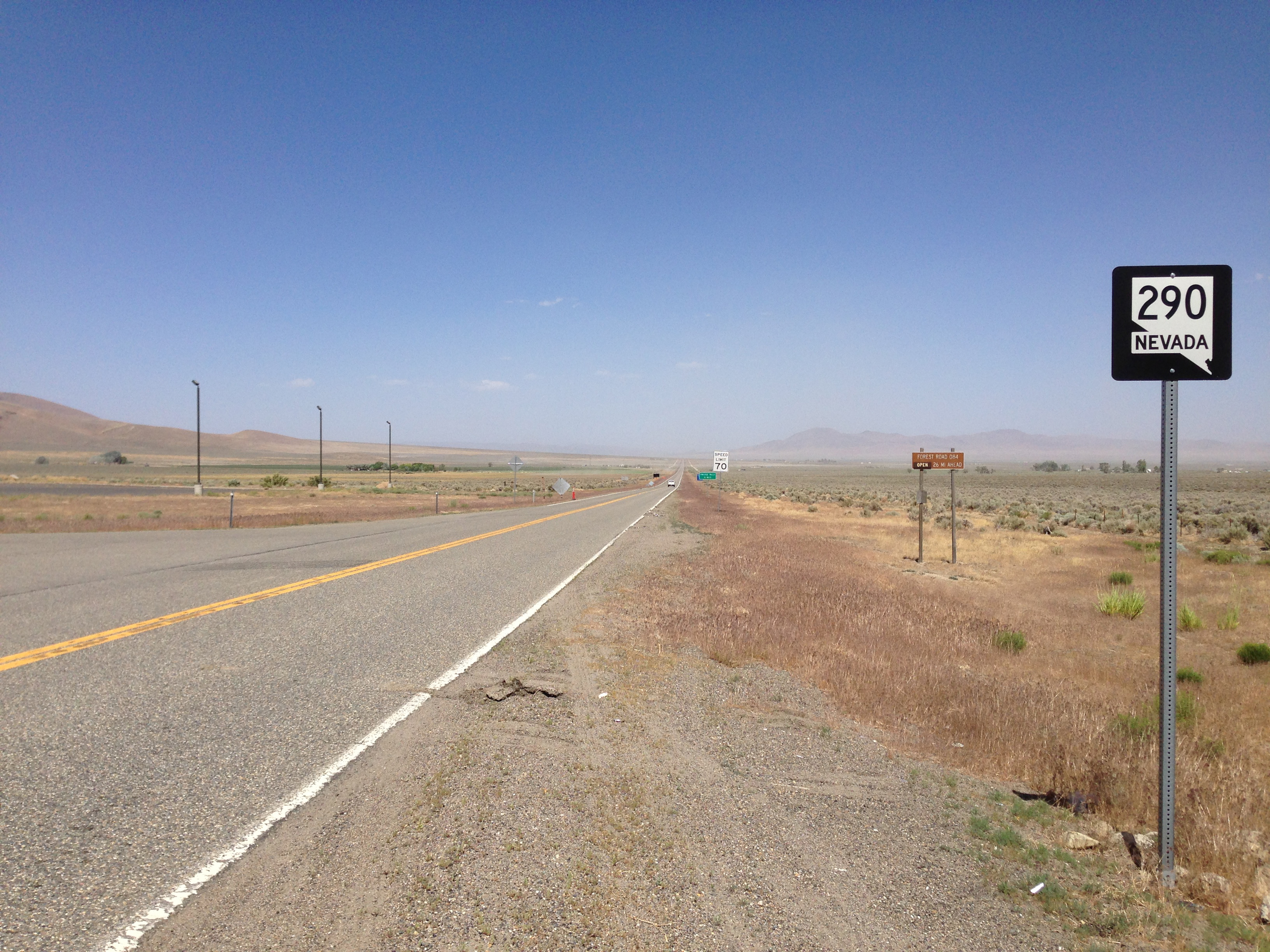 First reassurance sign along northbound Nevada State Route 290 (Paradise Valley Road) in Paradise Valley, Nevada